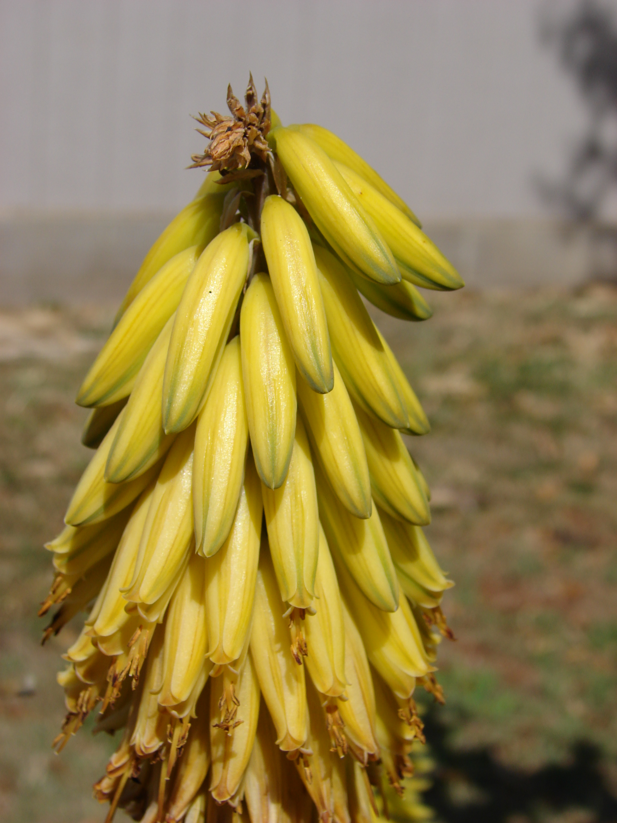 Aloe vera (flowers). Location: Maui, Pukalani